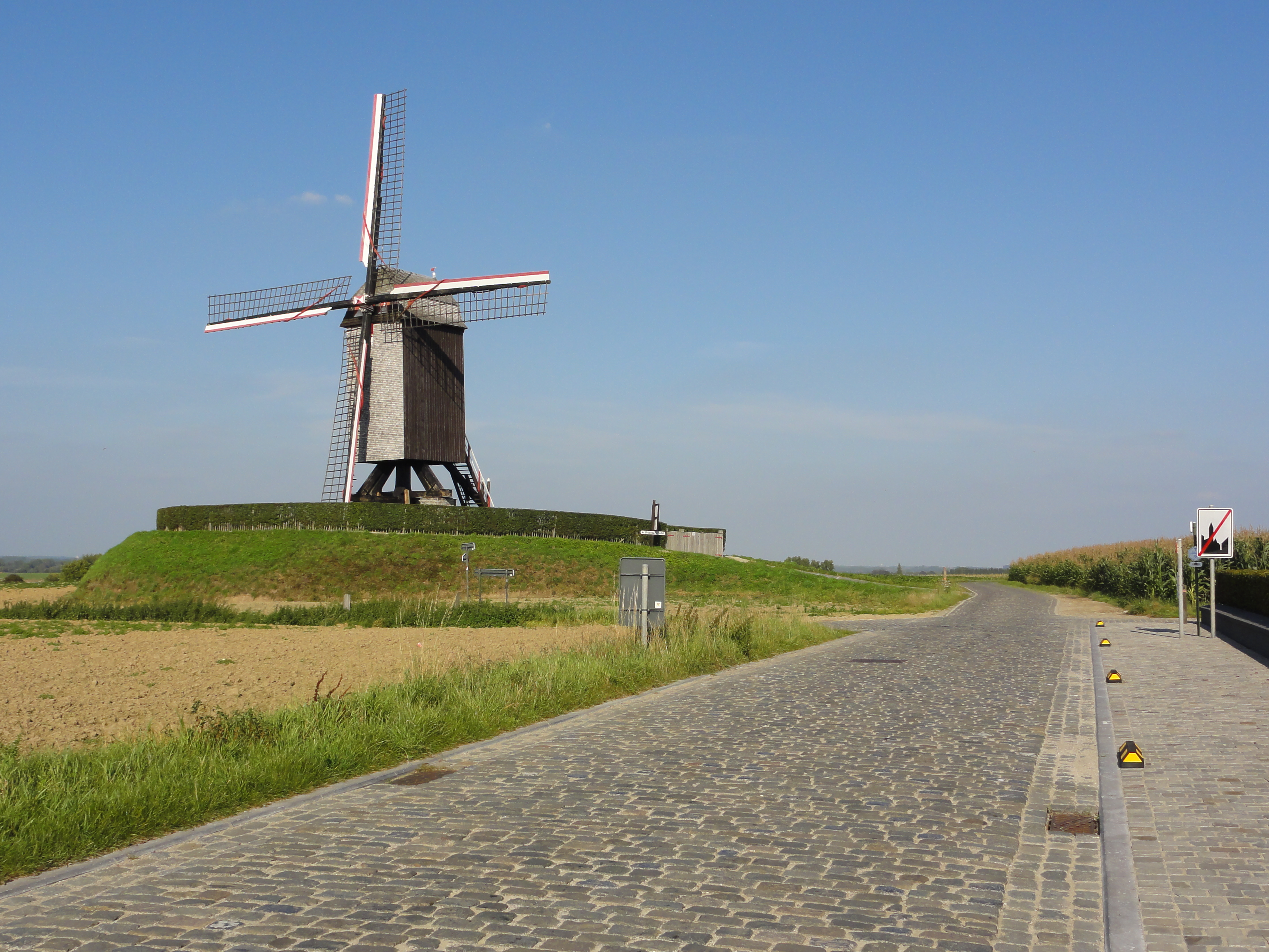 Huisepontweg road and the Schietsjampettermolen windmill in Wannegem. Wannegem, Wannegem-Lede, Kruishoutem, East Flanders, Belgium